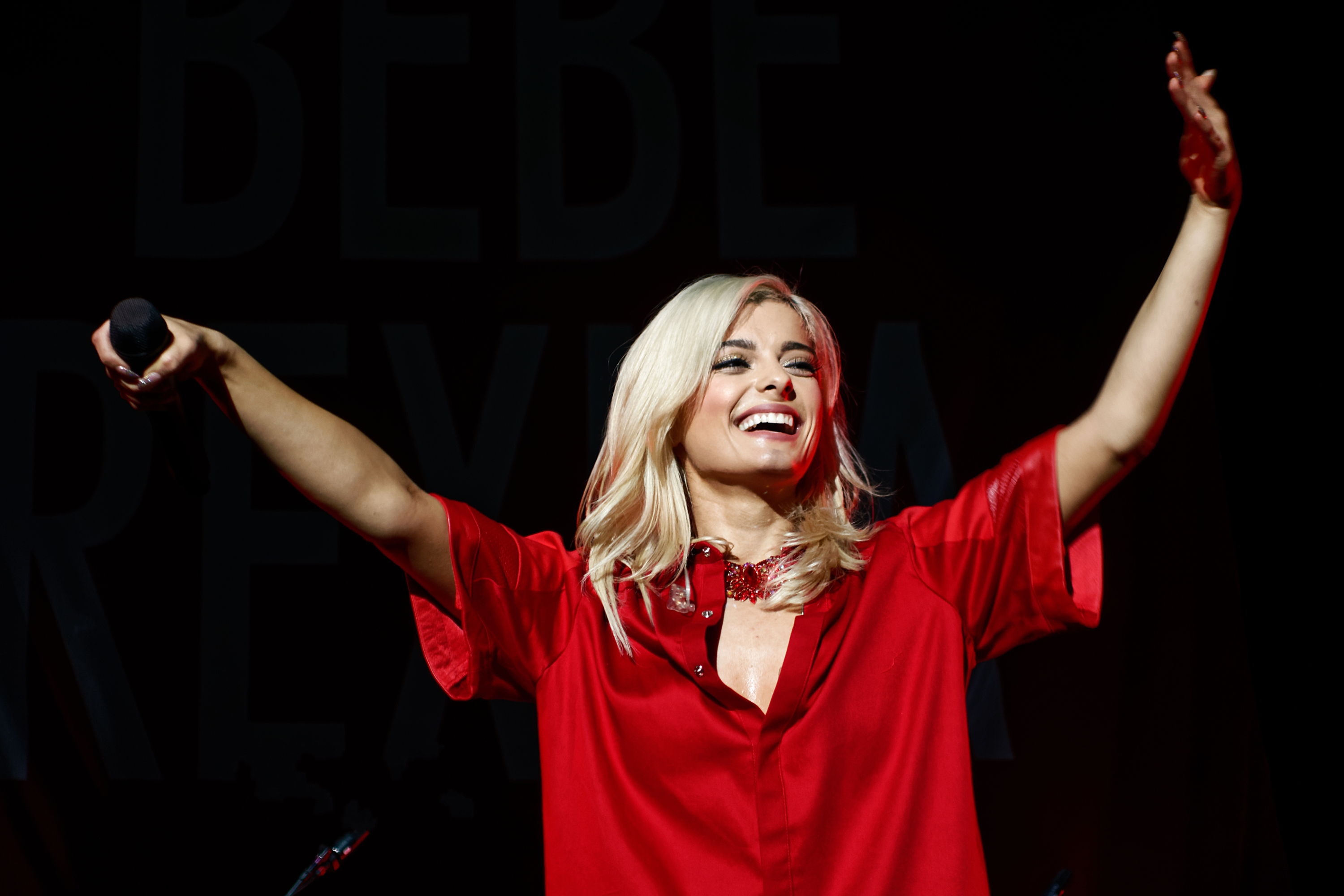 Bebe Rexha performing live at Staples Center in downtown Los Angeles, California on Friday April 8th, 2016. Bebe opened for Ellie Goulding on her Delirium World Tour.